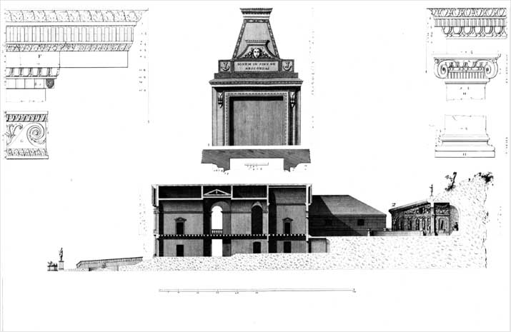 Villa Barbaro in Maser, province of Venice, by Andrea Palladio. Drawing by Ottavio Bertotti Scamozzi, 1781